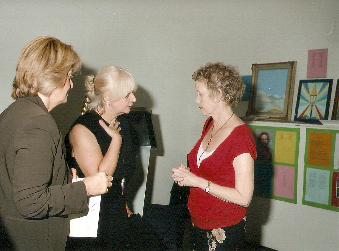 Aeronwy Thomas meets Lidia Chiarelli in Torino, Italy